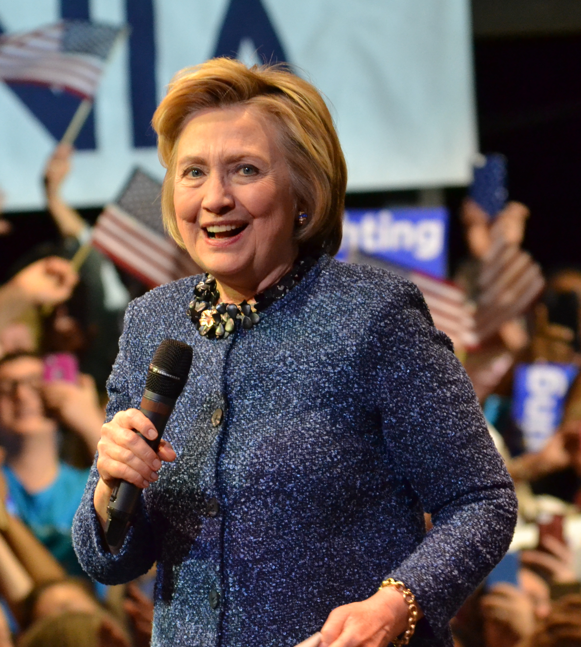 Hillary Clinton at a rally in Philadelphia for her presidential campaign on April 20th, 2016.